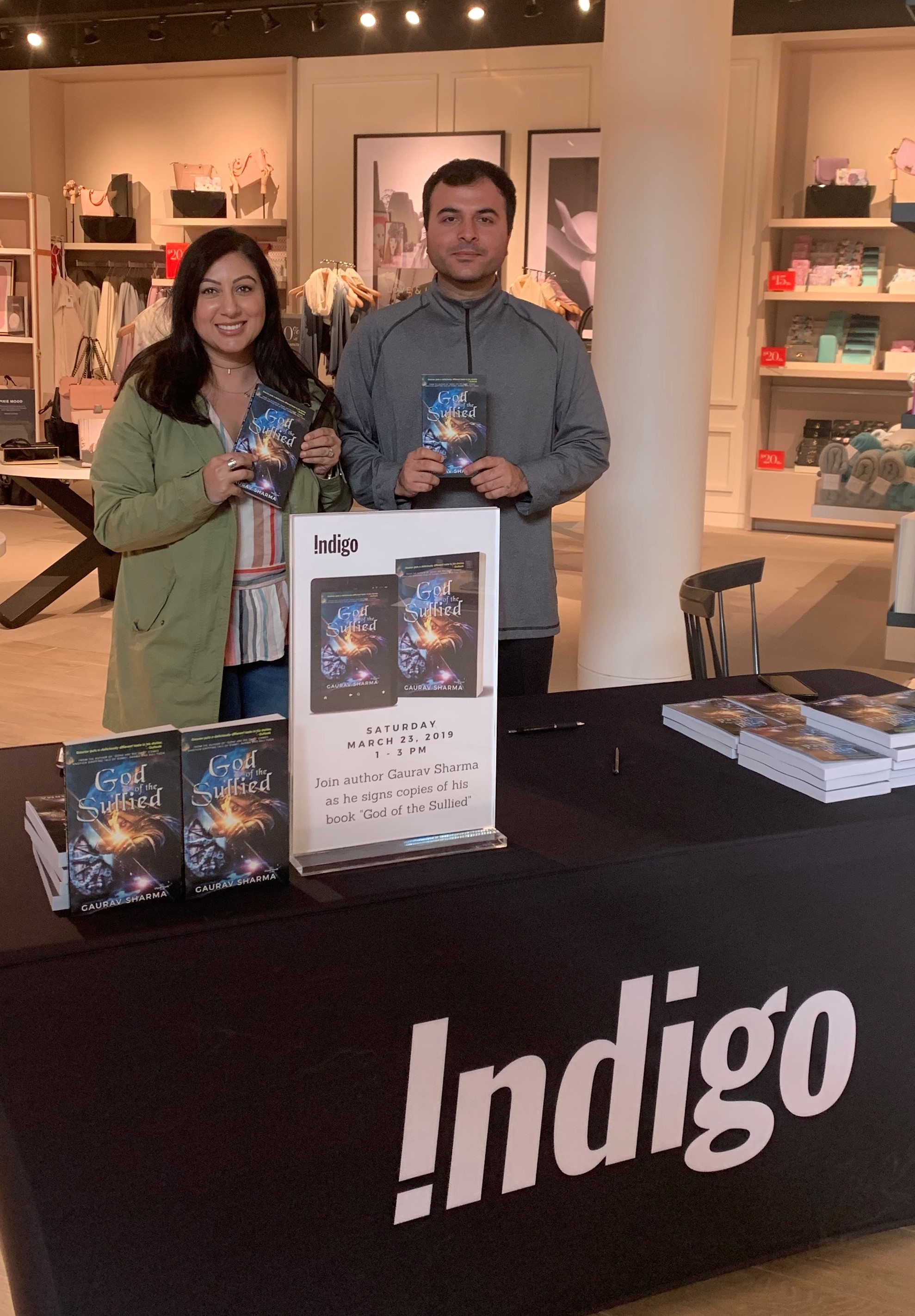 Author Gaurav Sharma at Indigo Store, Robson Street - Signing his novel God of the Sullied